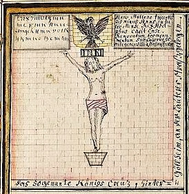 Das Königskreuz Göllheim im Thesaurus Palatinus, Band 1, des Johann Franz Capellini von Wickenburg (+ 1752)